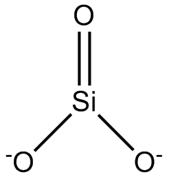 metasilicate